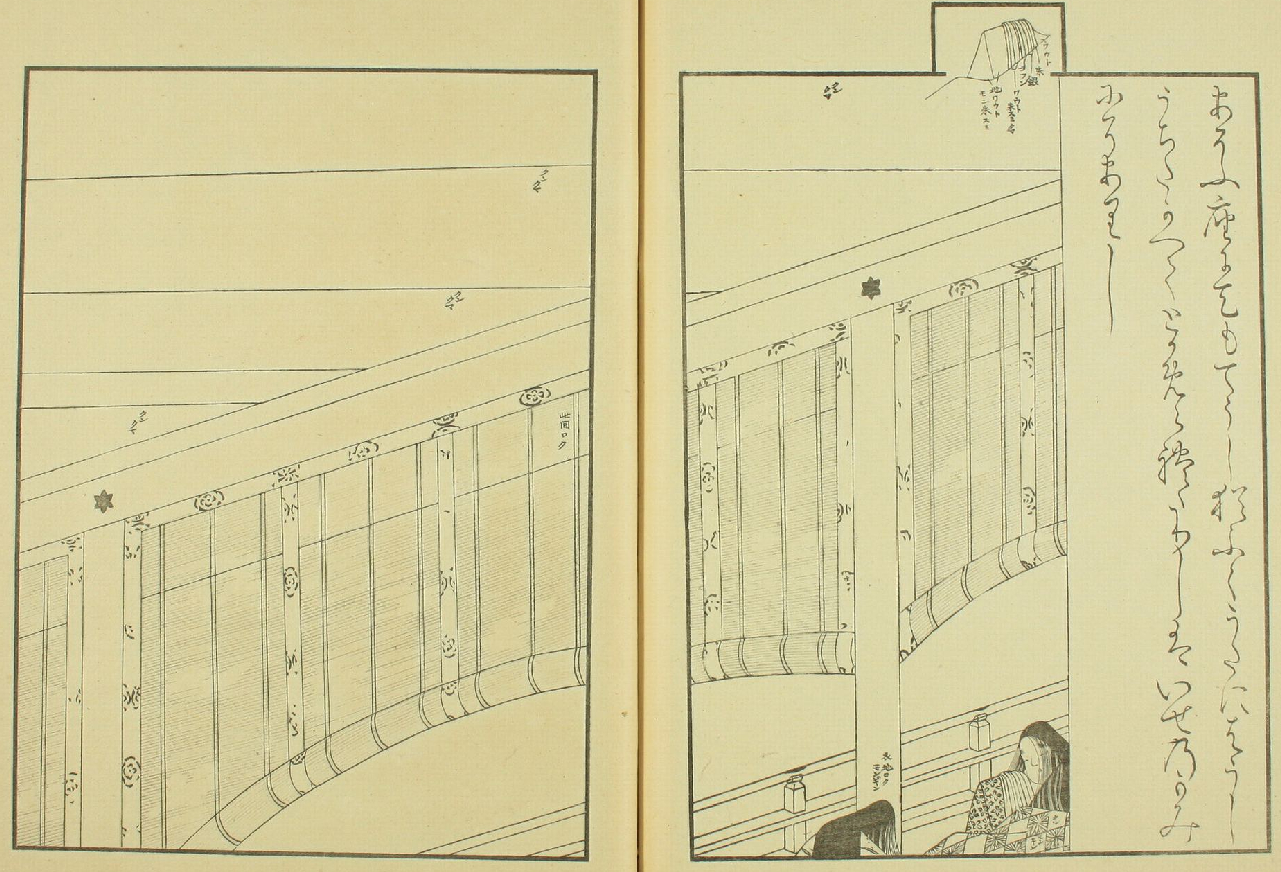 Ukiyo-e reproduction of the Murasaki Shikibu Diary Emaki, Hinohara scroll, 5th painting.